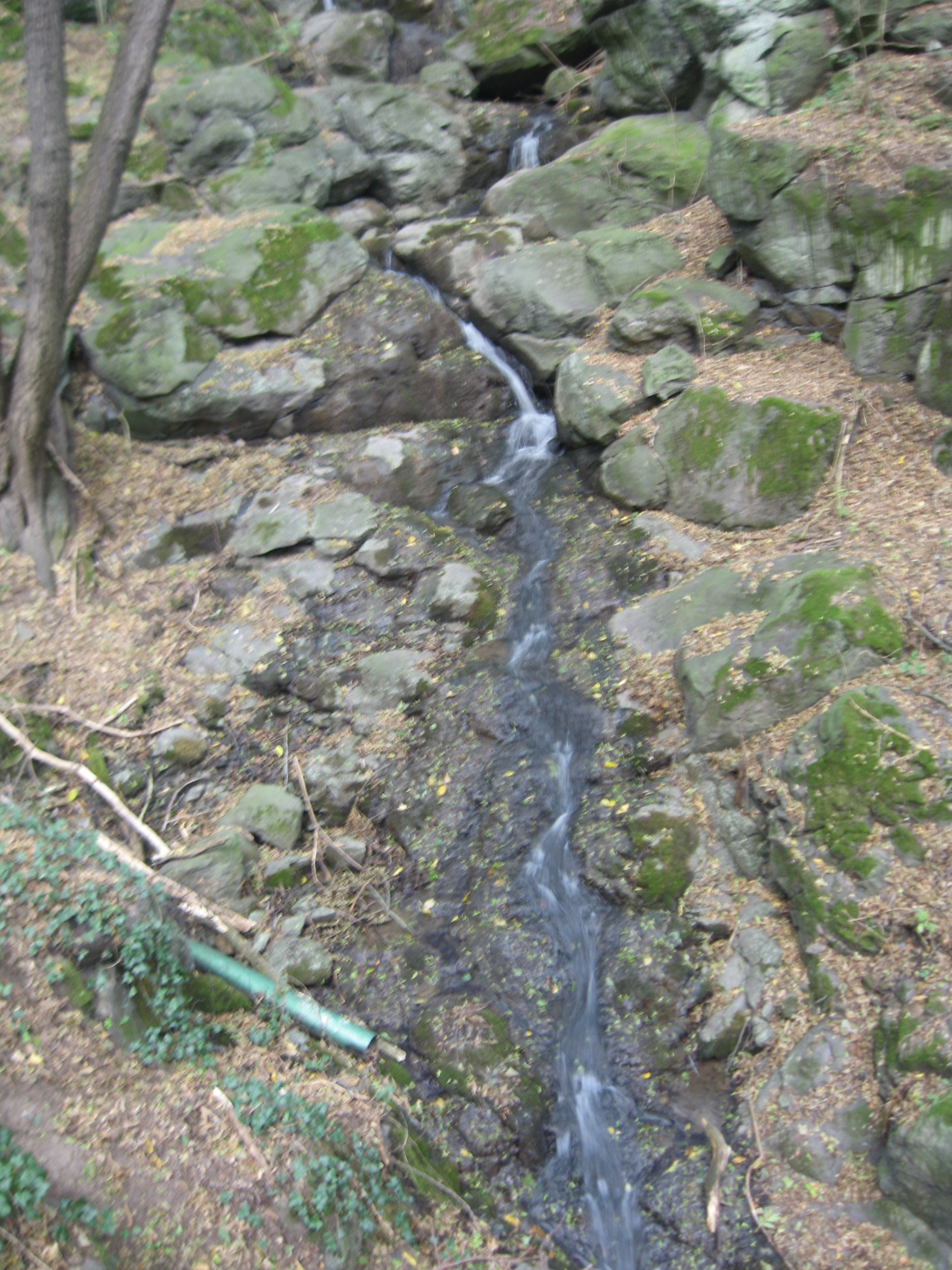 Waterfall in Moravany near Řehlovice